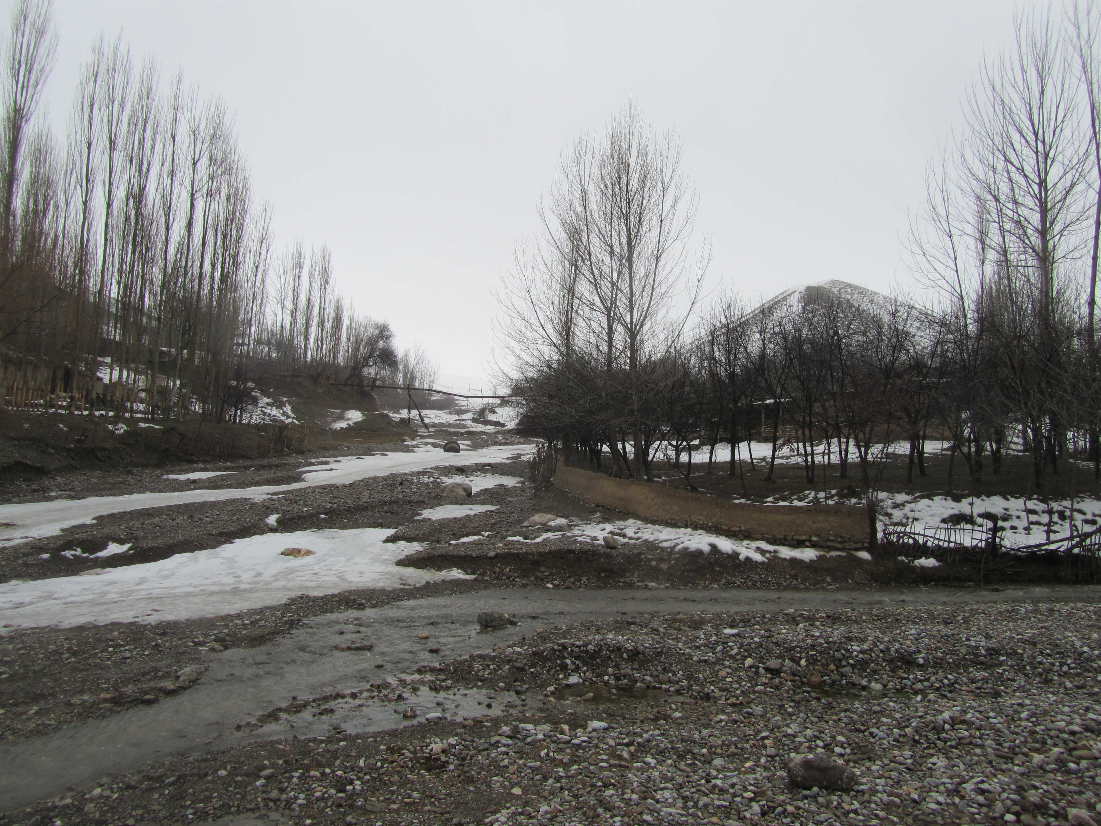 A creek in the village of Min-Jygach (former title 50 Let Kirgizii). Leilek, Kyrgyzstan.